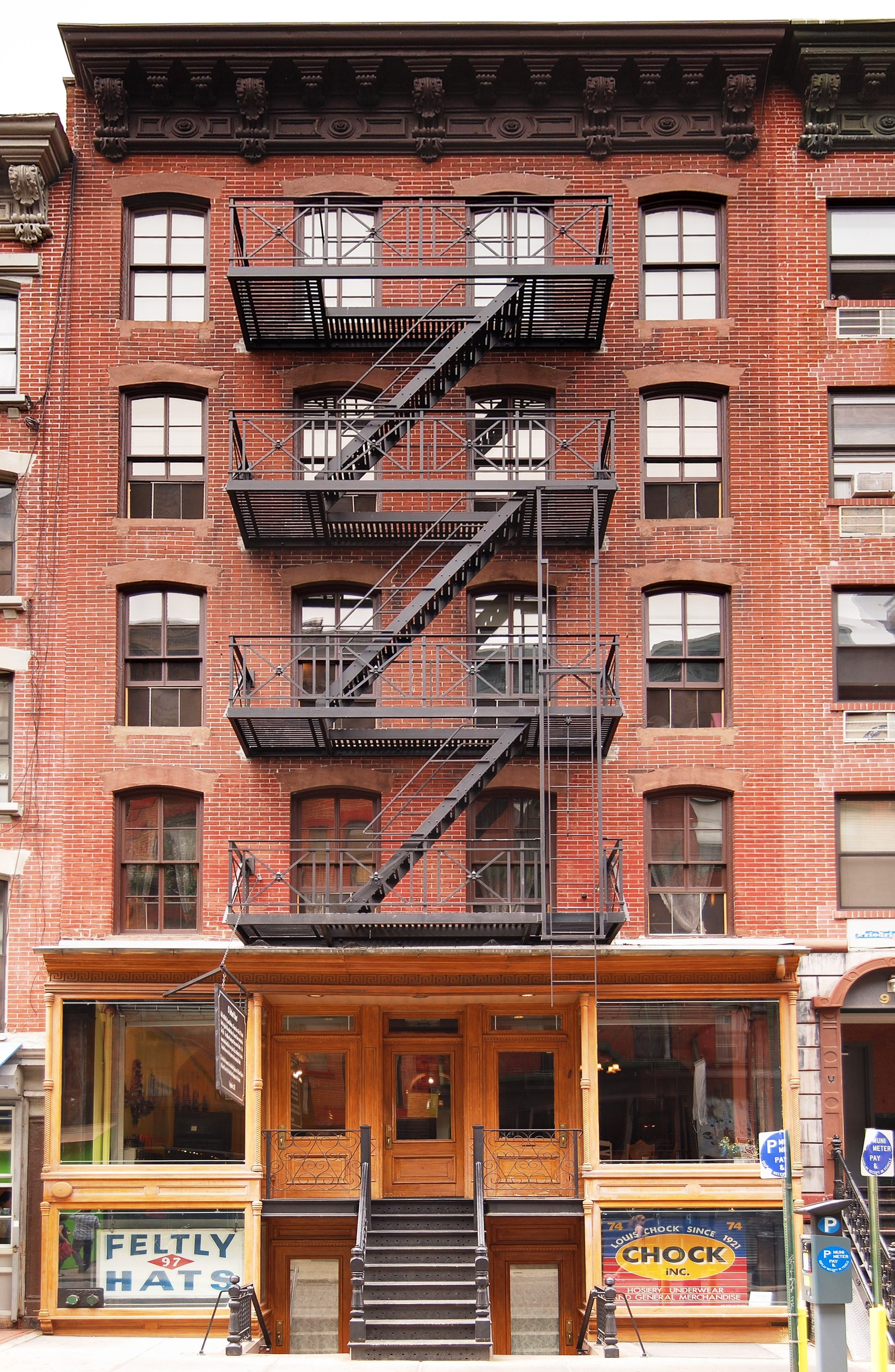 The Lower East Side Tenement Museum at 97 Orchard Street, New York City. Built by Prussian immigrant Lukas Glockner in 1863 it housed thousands of immigrants until 1935 when it was vacated, and later became a museum in 1988.